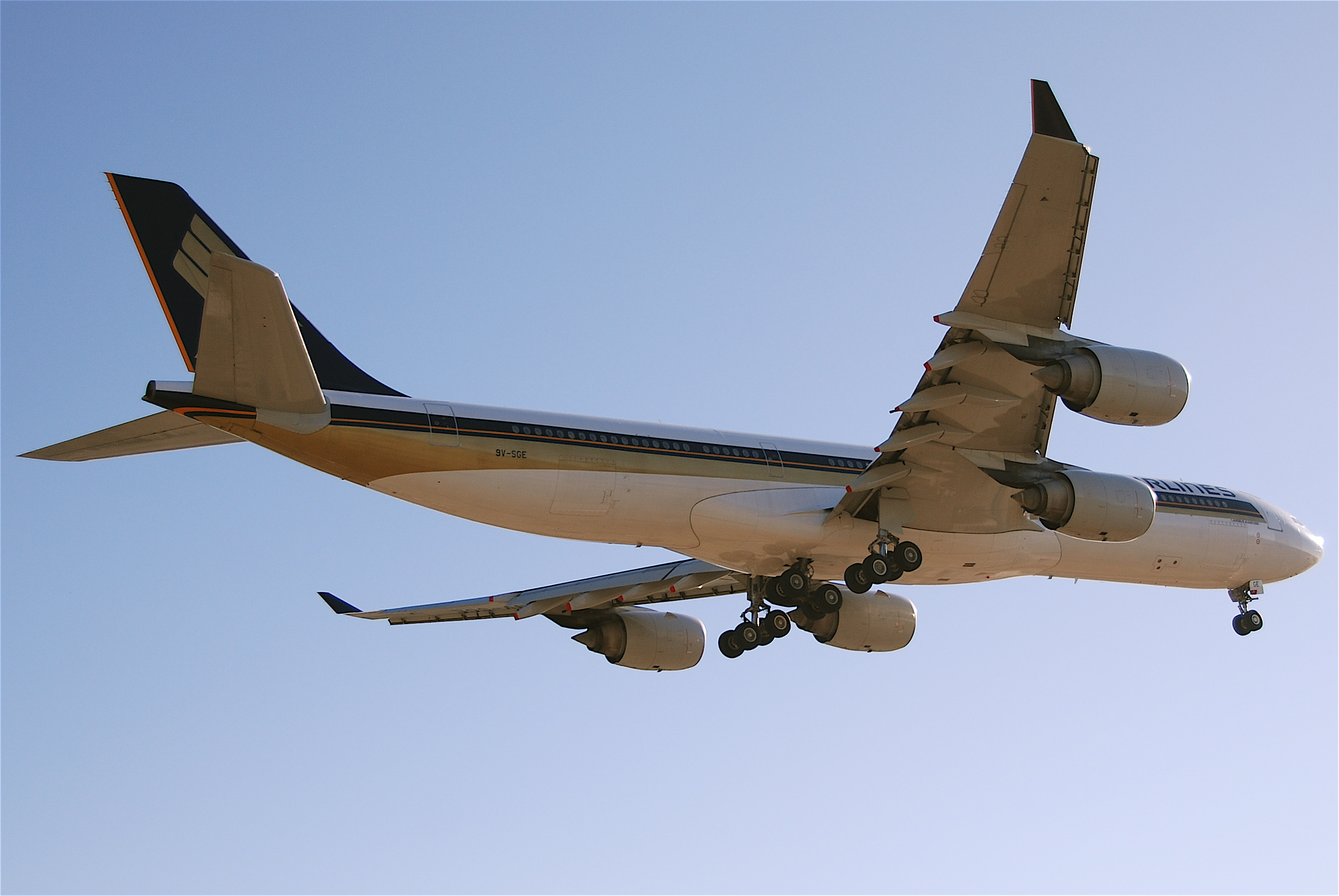 Singapore Airlines Airbus A340-500; 9V-SGE@LAX;08.10.2011/620dv